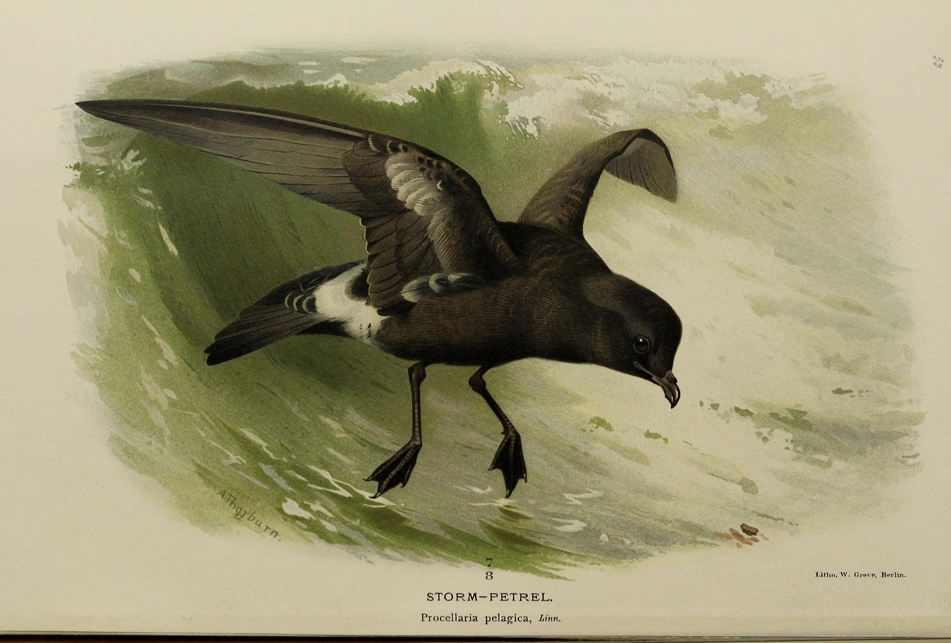 Coloured figures of the birds of the British Islands / issued by Lord Lilford.